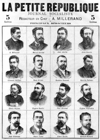 Contributors to Alexandre Millerand's socialist journal Le Petite Republique